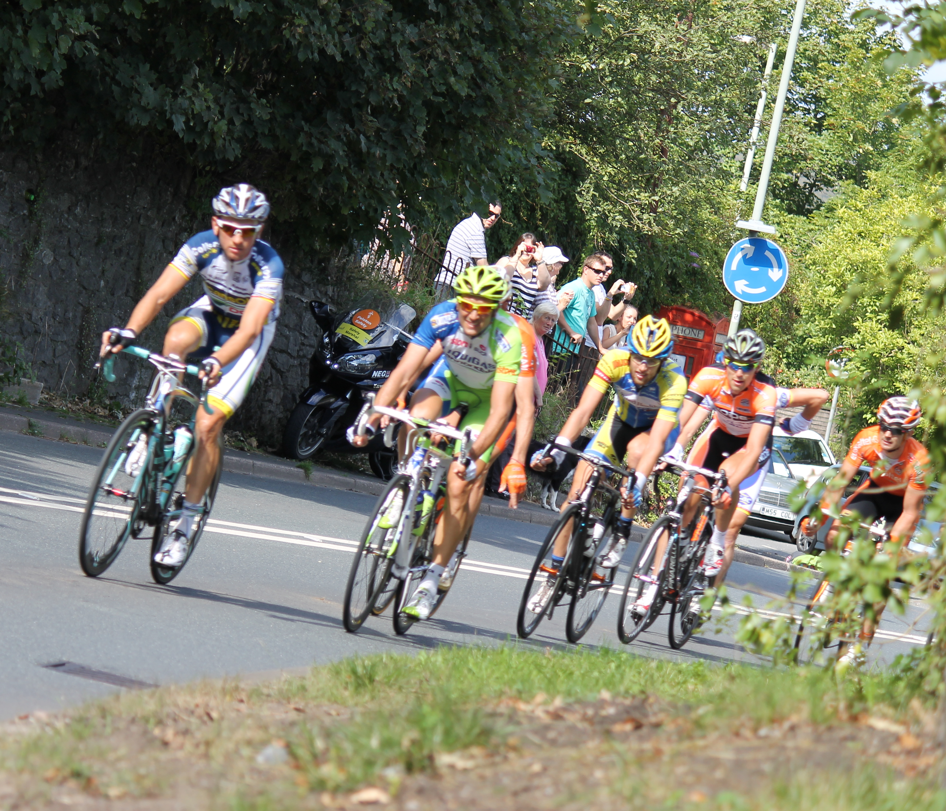 Tour-of-Britain_120915_013